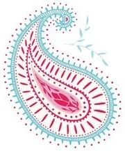 Buta ("bouter" [bu:tə], puta) – is a type of decorative patterns looks alike to almond or bud. It is prevalent decorative element of Azerbaijani Ornamental Art. In the West it is recognized as an element of Paisley (design)